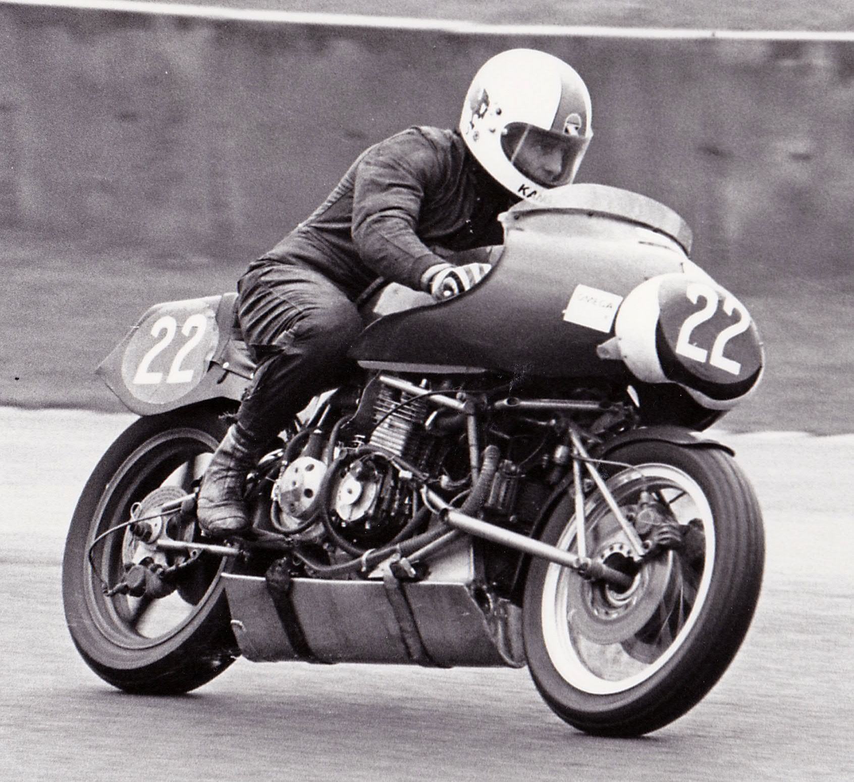 Mead and Tomkinson Kawasaki Z1000-engined Endurance racer nicknamed 'Nessie' campaigned by Arthur Moloney and Roger Nicholls at a World Endurance Championship event at Donington Park in September 1981